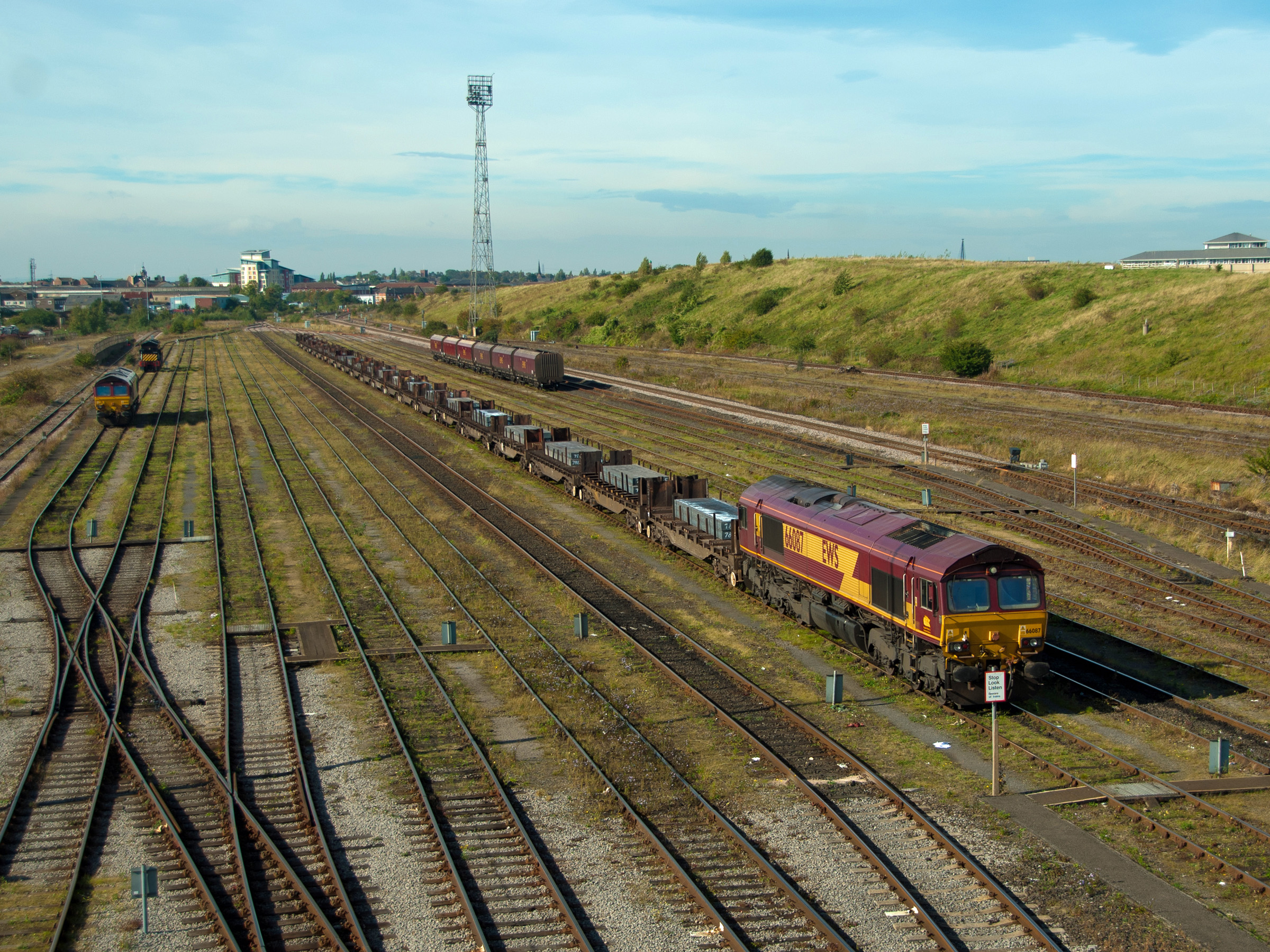 66087 In Tees Yard arrival and departure sidings with a Steel train from Scunthorpe for the Lackenby Beam Mill on 27 September 2011